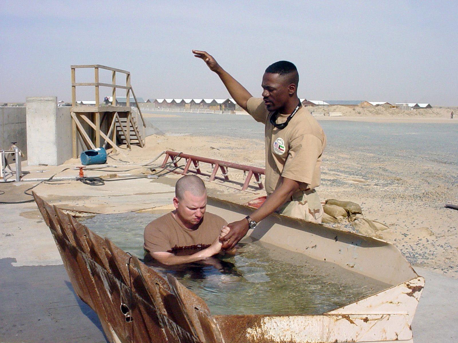 U.S. Navy Chaplain, Lt. Cmdr. Lulrick Balzora, assigned to Naval Mobile Construction Battalion Fourteen (NMCB-14), prepares to baptize Construction Mechanic Kyle Ellis. Balzora baptized several members assigned to NMCB-14 and NMCB-74 using a 2.5 cubic yard front-end loader bucket as an improvised baptismal. NMCB-14 and NMCB-74 are currently deployed in Iraq supporting Operation Iraqi Freedom (OIF).